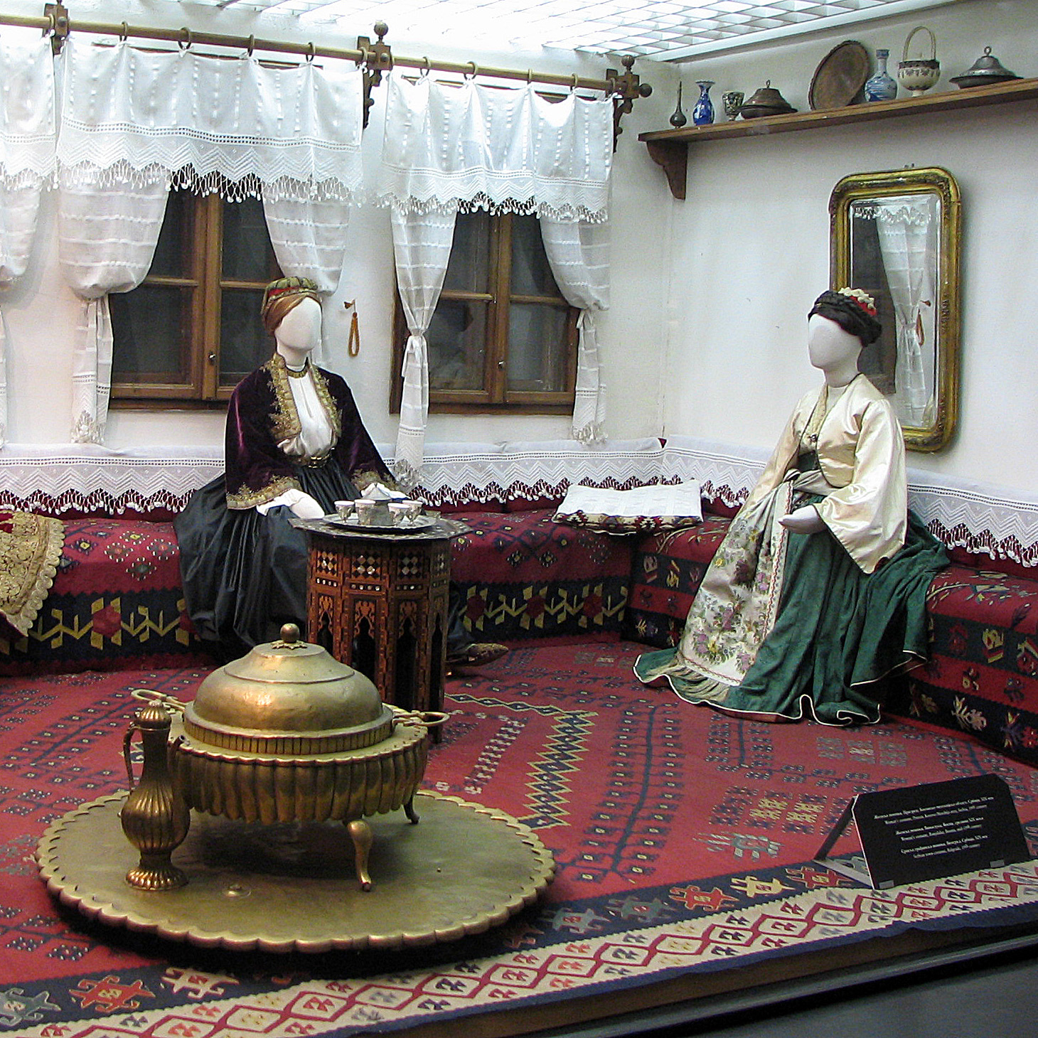 Divanhana, Ethnographic Museum, Belgrade